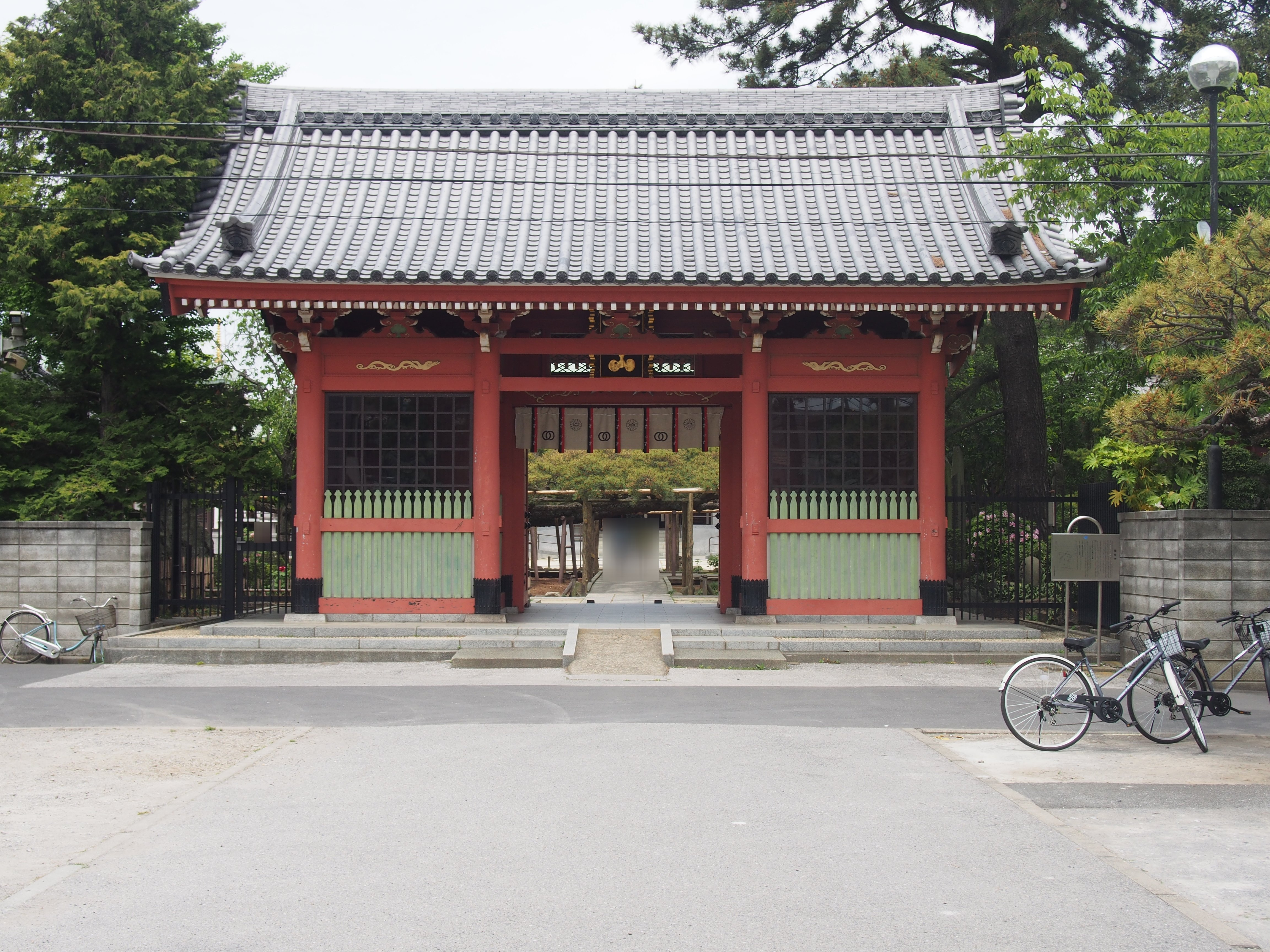 A photo of the main gateof Zenyoji temple,Higashikoiwa,Edogawa-ku,Tokyo,Japan.